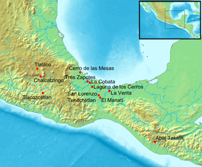 Location map of Olmec Archeological sites